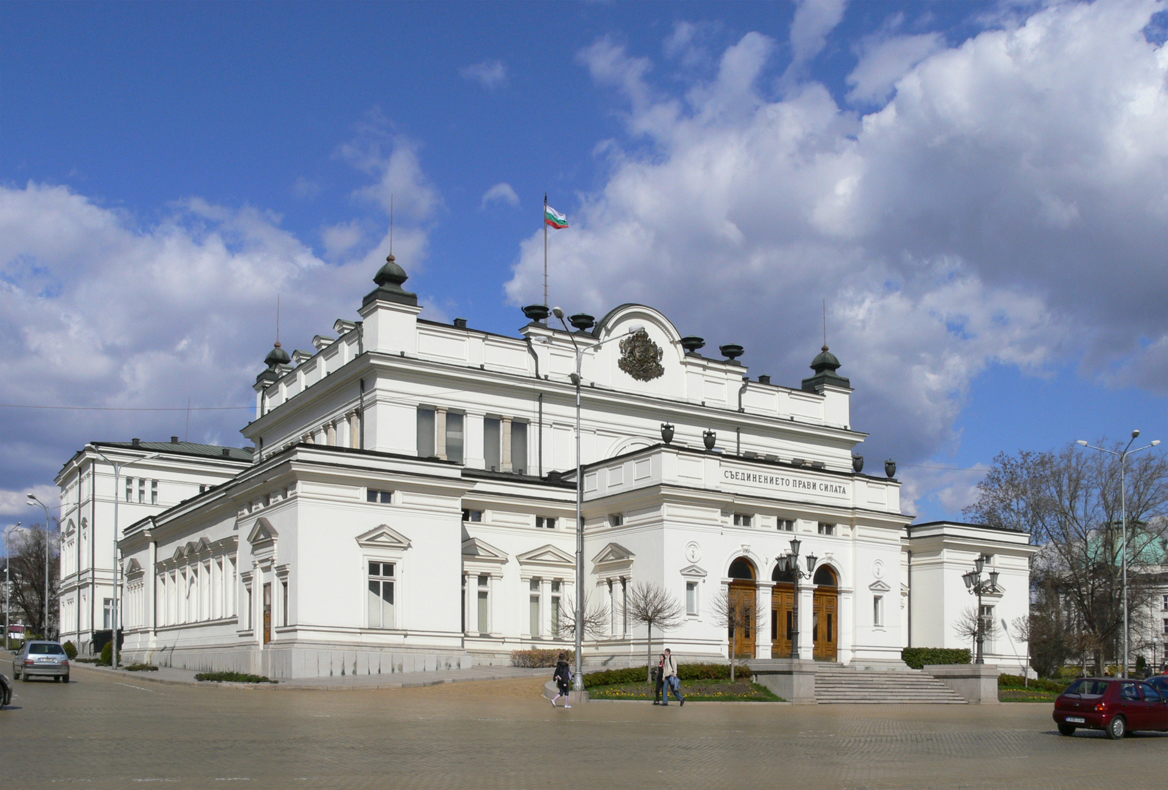 National Assembly of Bulgaria, Sofia, Bulgaria